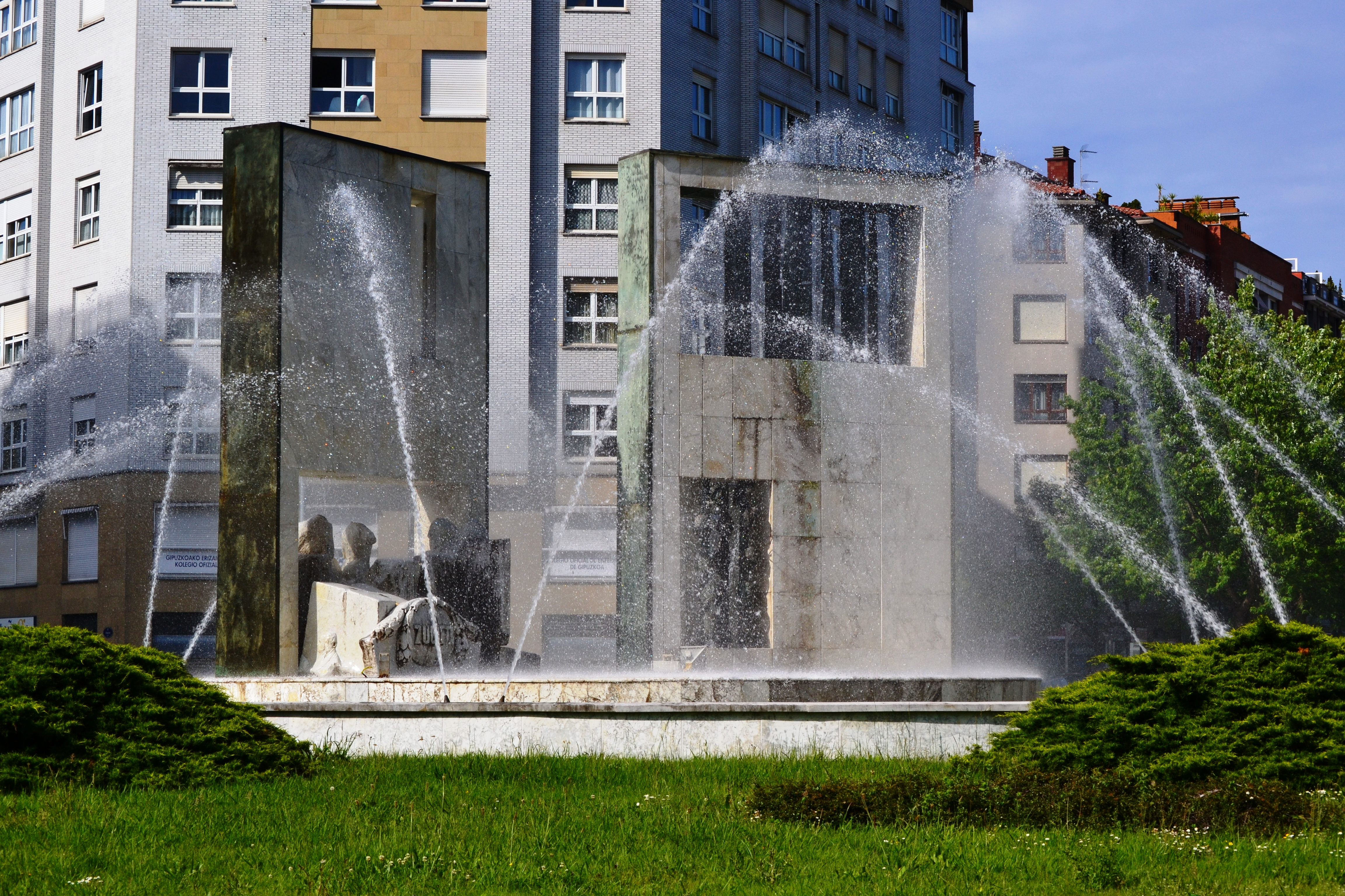 Ateak eskultura